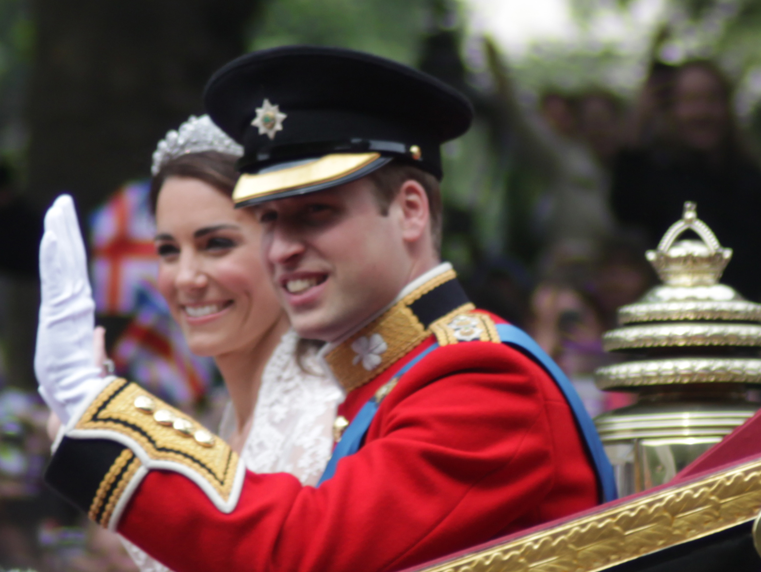 Wedding of Prince William of Wales and Kate Middleton